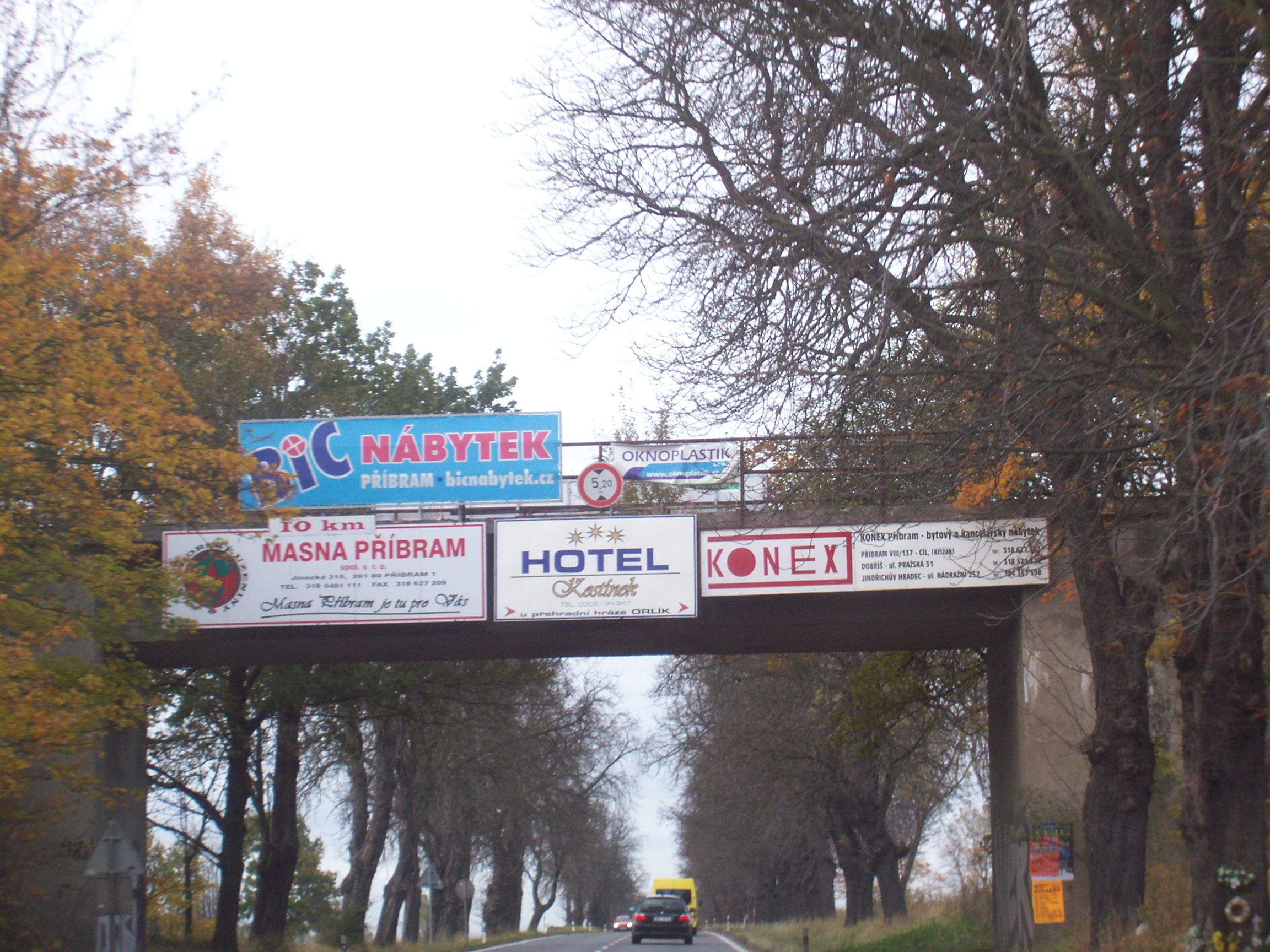 Bridge at railway line from Tochovice to Orlík in the Czech republic.